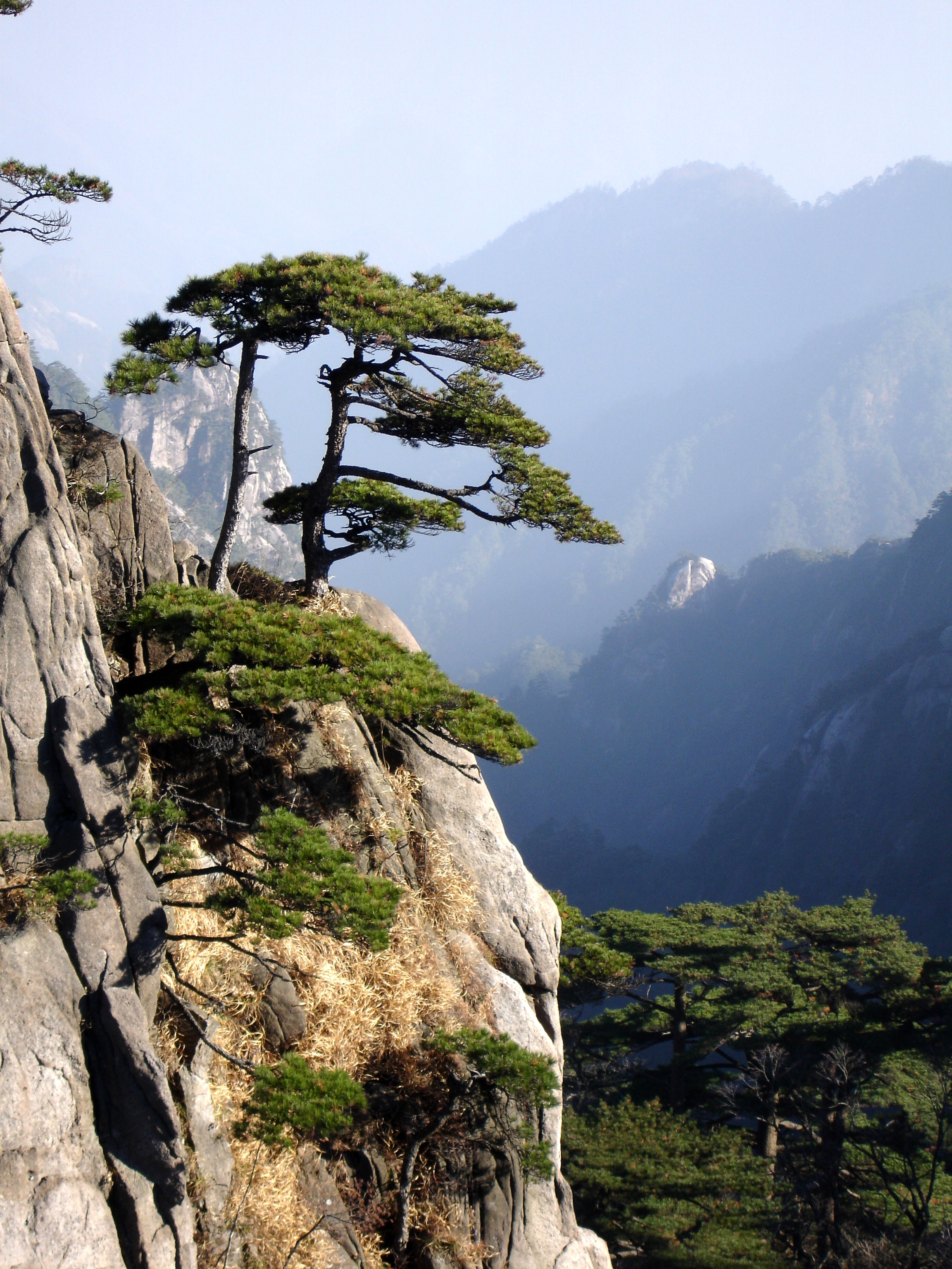 Huangshan mountain with Pinus hwangshanensis trees